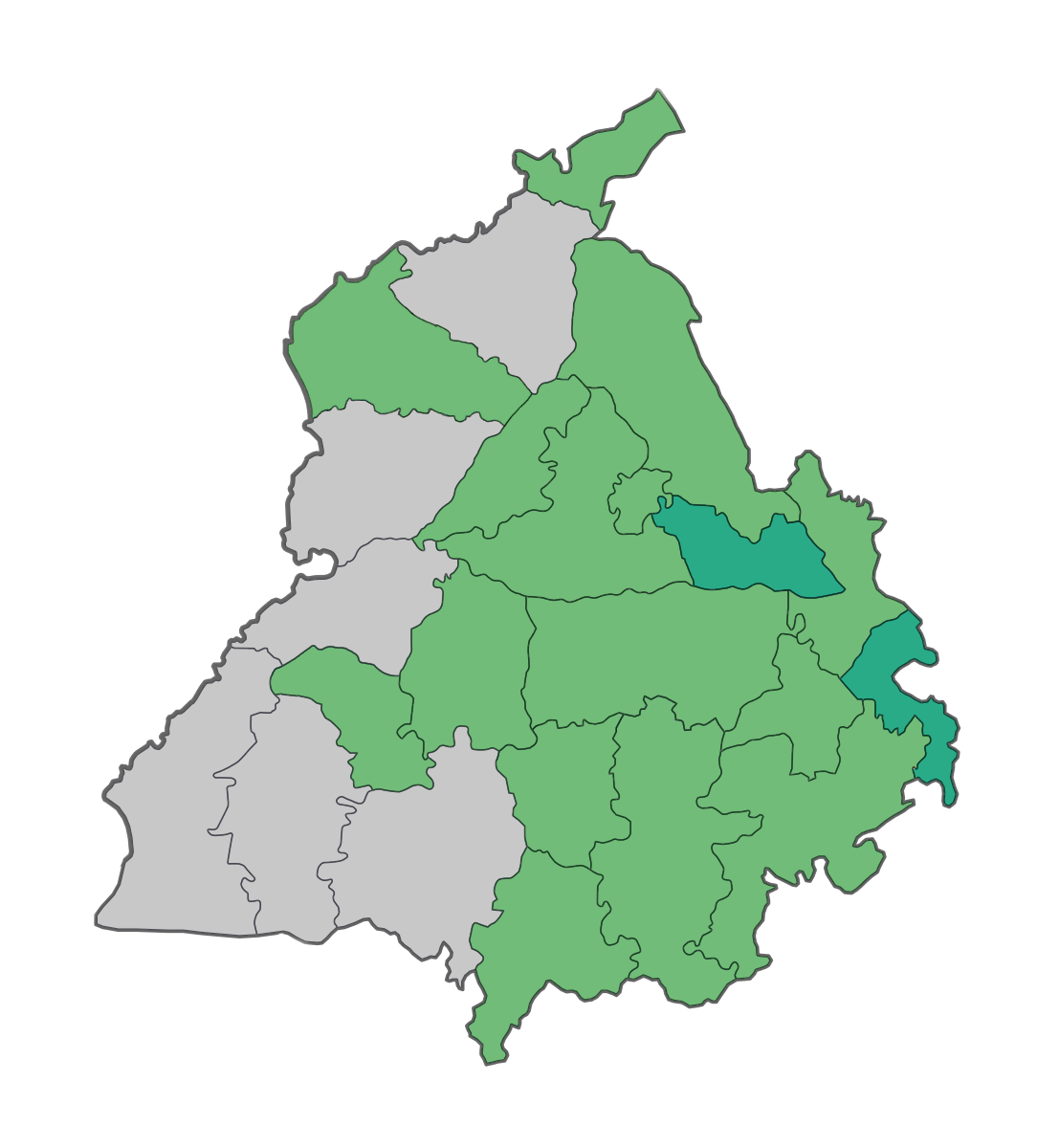 Recover cases from covid-19 in Punjab, India